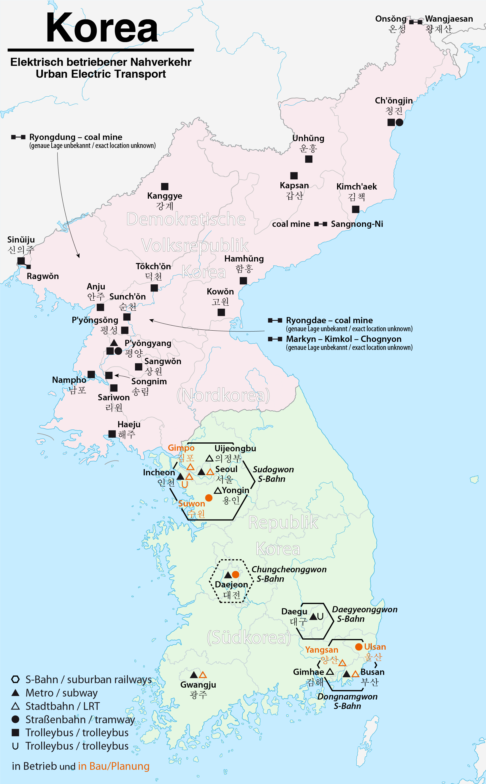 Map of fixed-route public transport systems (Rapid Transit, tramway, trolleybus) in Korea